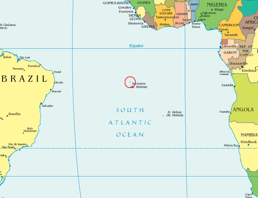 A detailed location map of Ascension Island, cropped from a larger map, courtesy of the CIA World Factbook